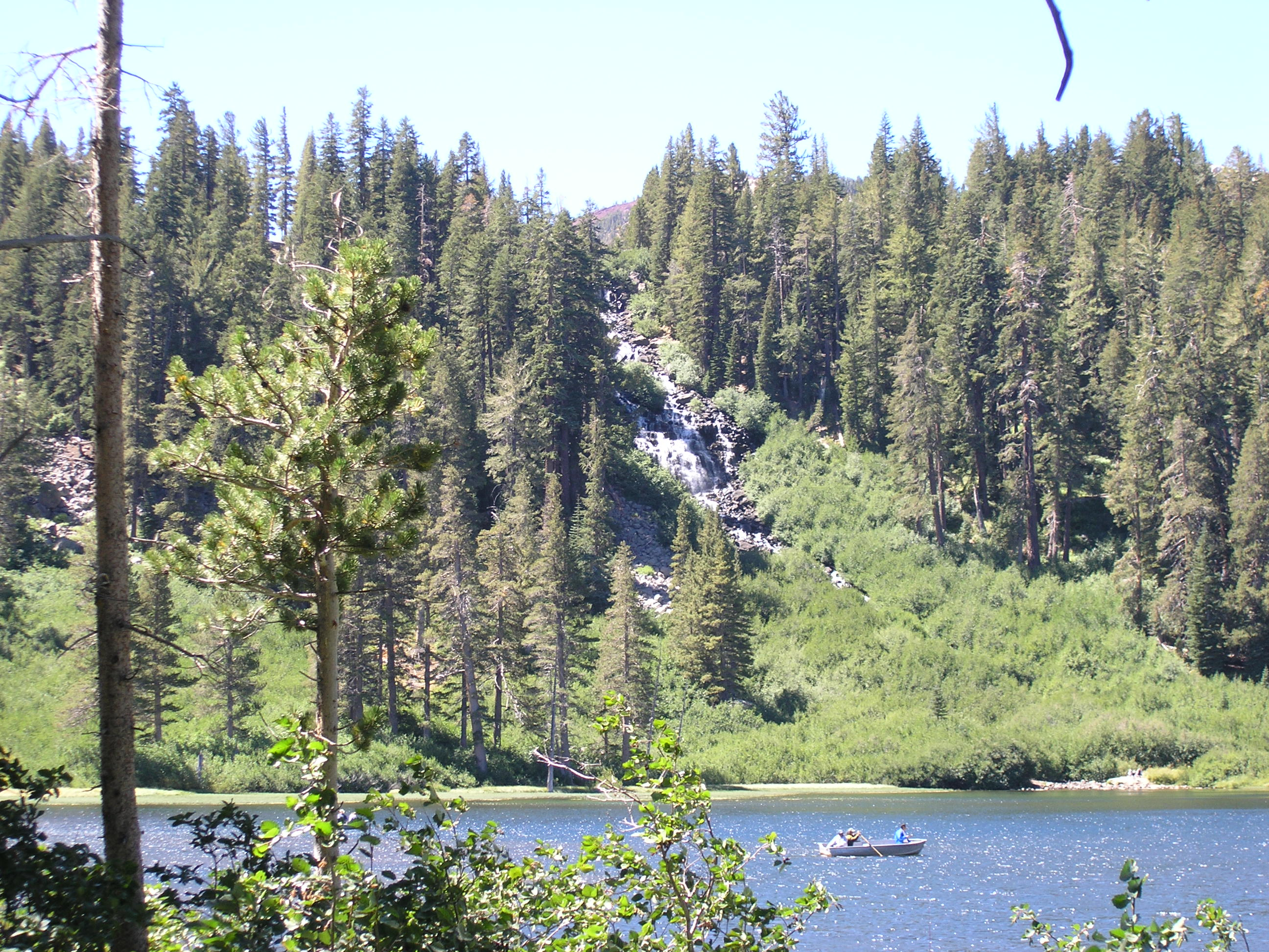 Twin Lakes and Twin Falls, Mammoth Lakes, California